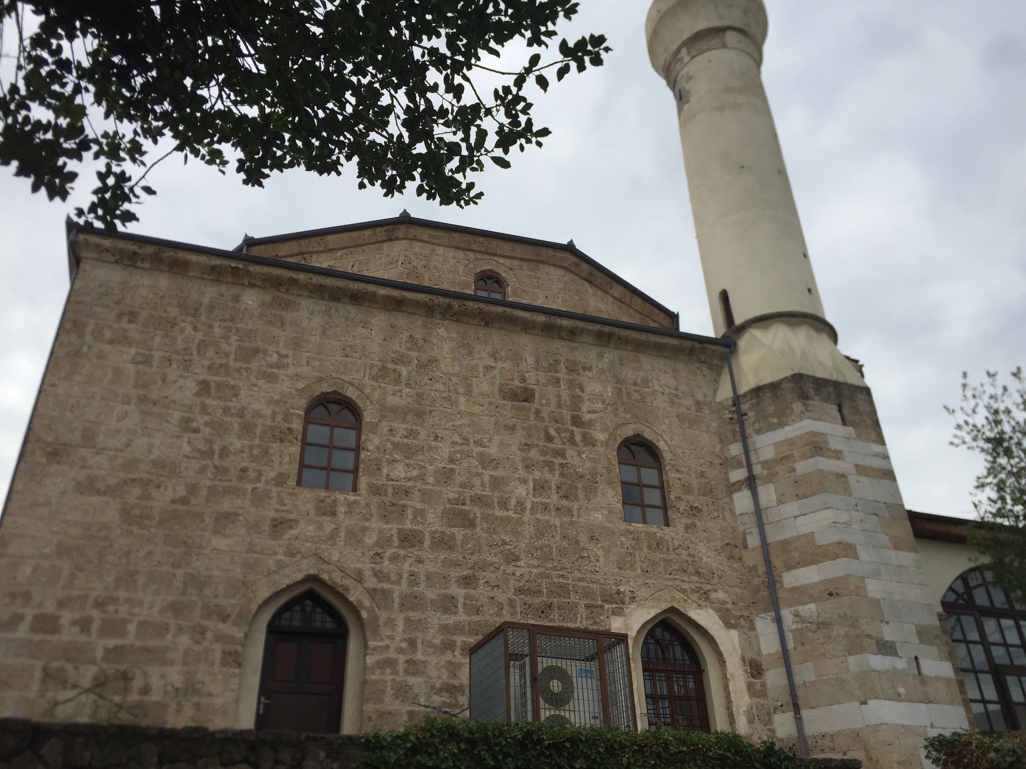 Medresse Mosque«Ορτά Τζαμί»